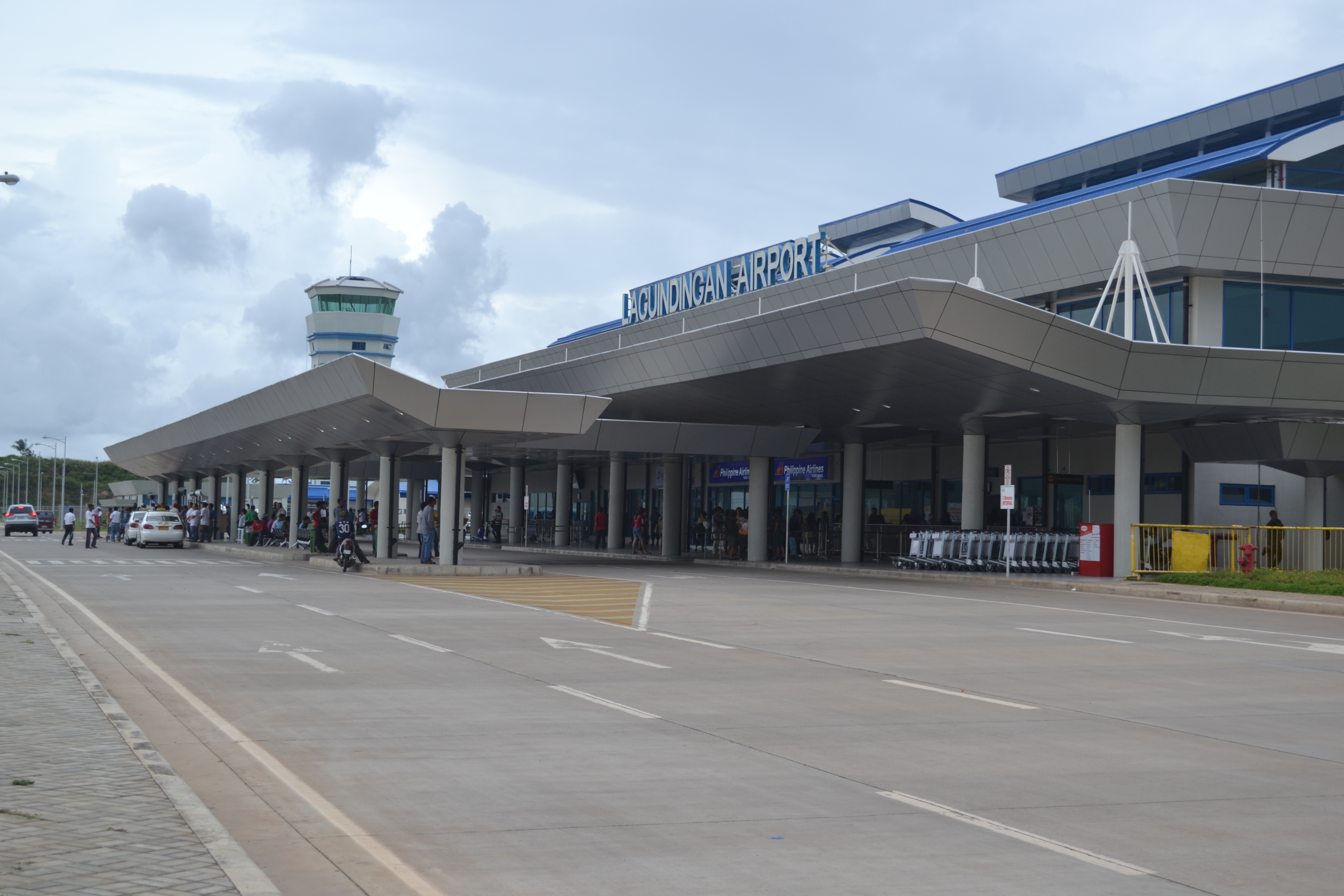 The Laguindingan International Airport's only terminal.